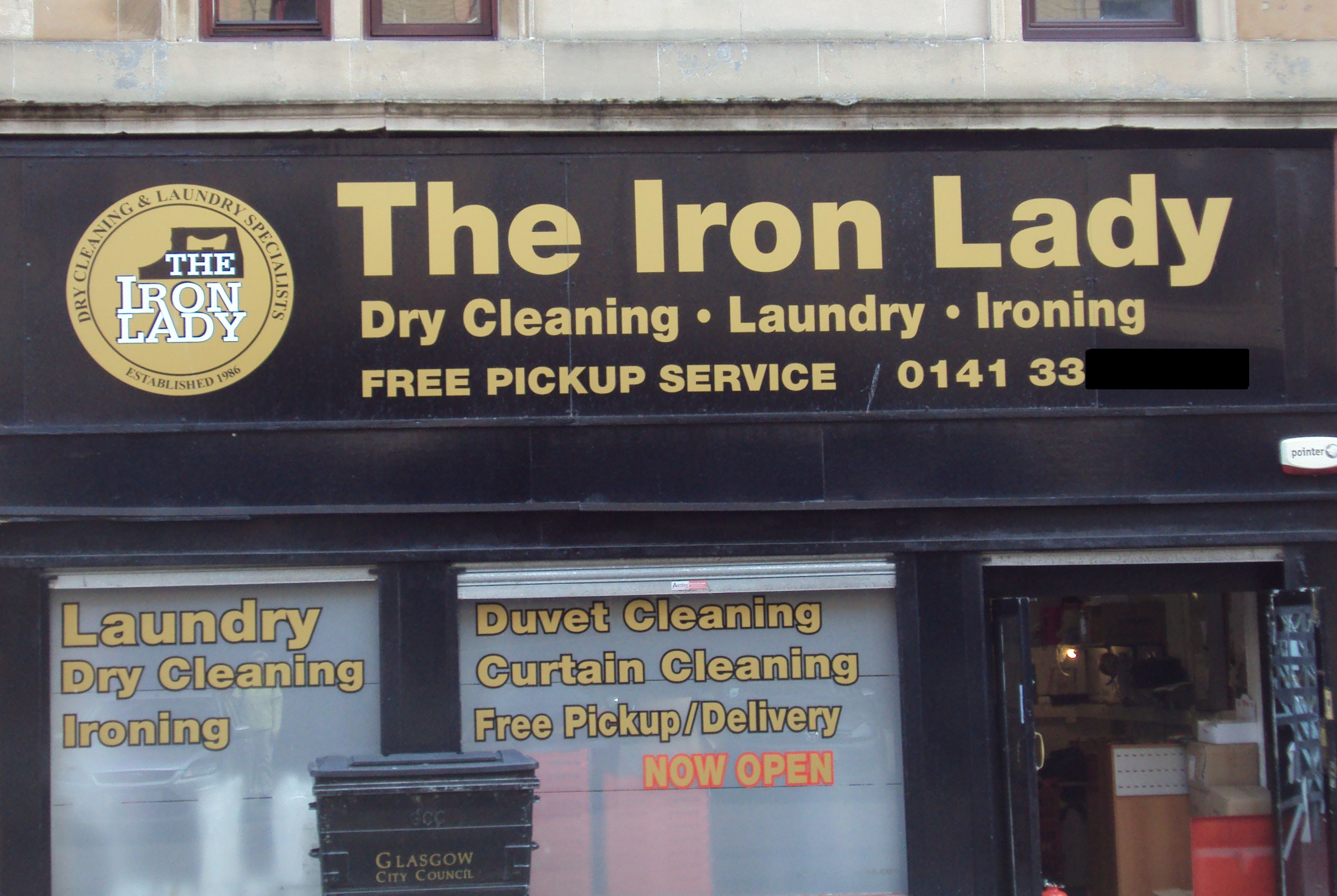 British humour ..., the last digits of the tel. nr. were blackened